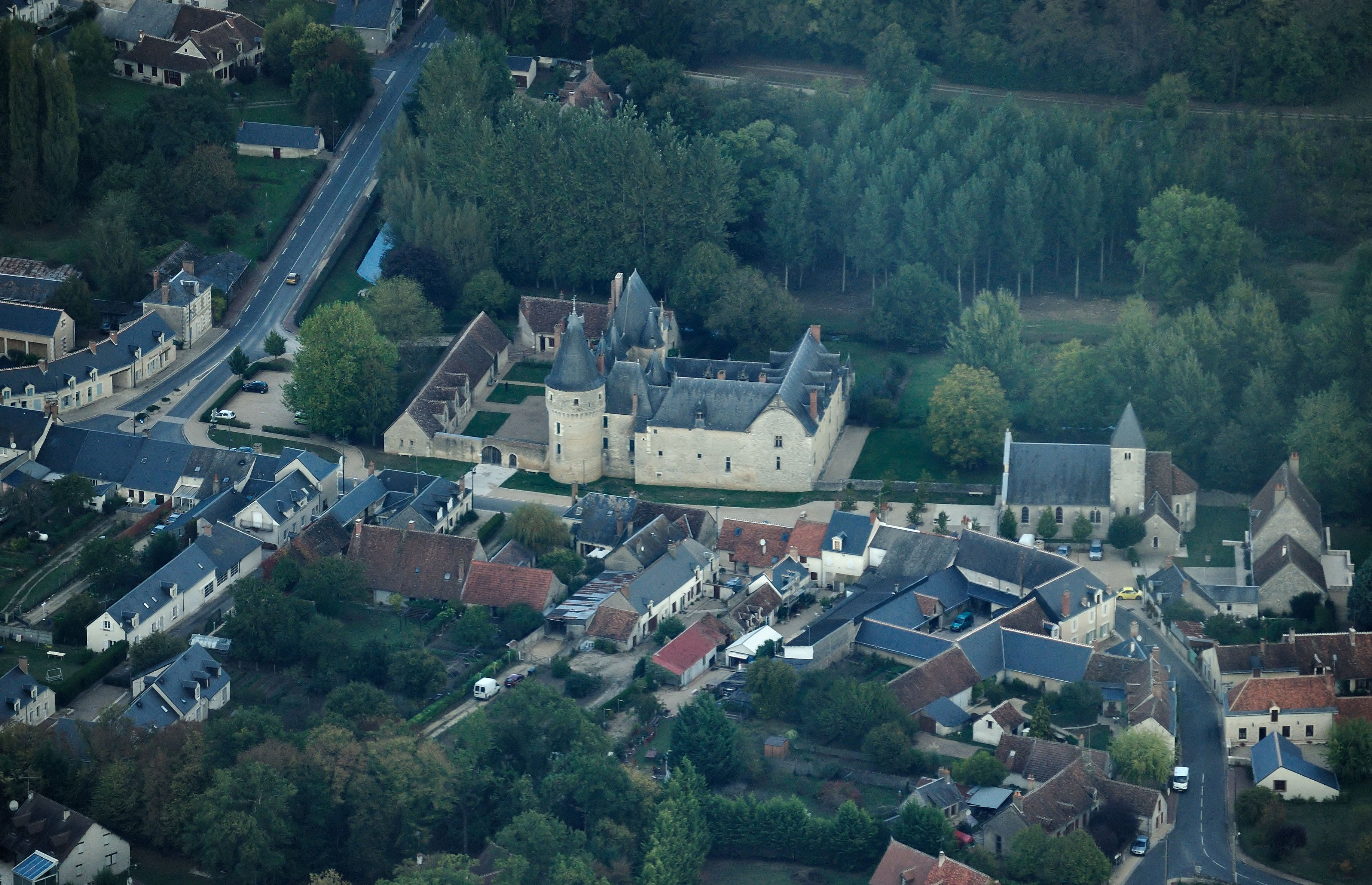 Aerial view of the castle of Fougères-sur-Bièvre (Loir-et-Cher department, France). Nikon D60 f=135mm f/5 at 1/500s ISO 400. Processed using Nikon ViewNX 1.3.0 and GIMP 2.6.6.